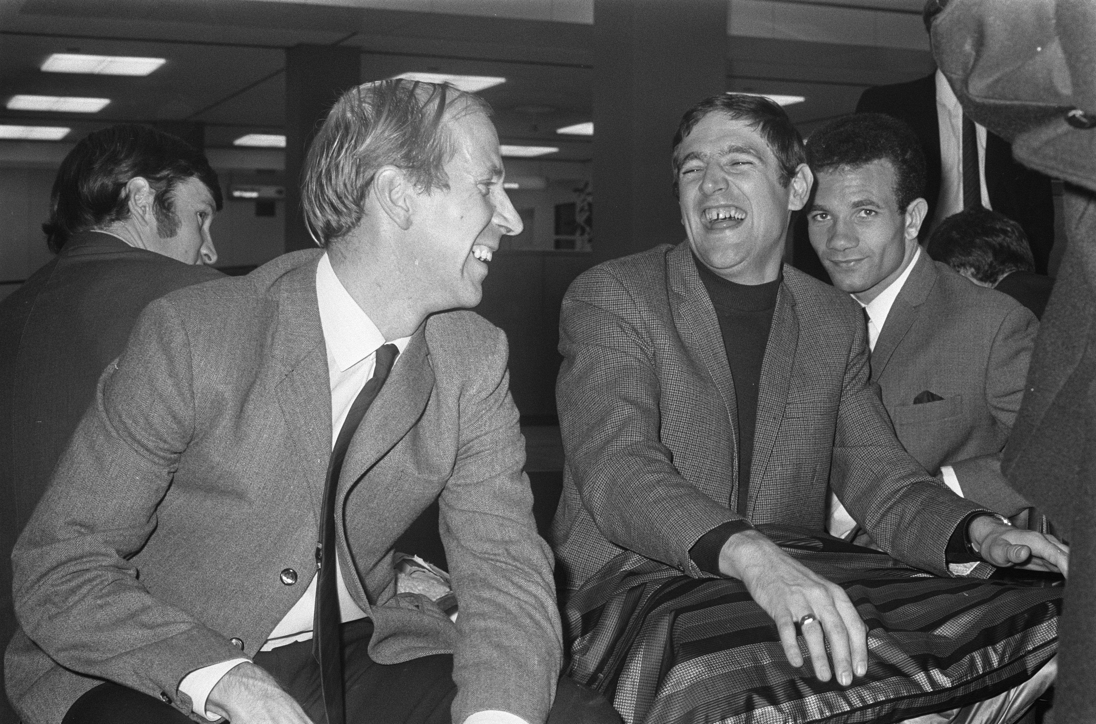 England national football team arrives at Schiphol for the match against the Dutch national team next Wednesday. Bobby Charlton (left) and Norman Hunter (right) of Leeds United